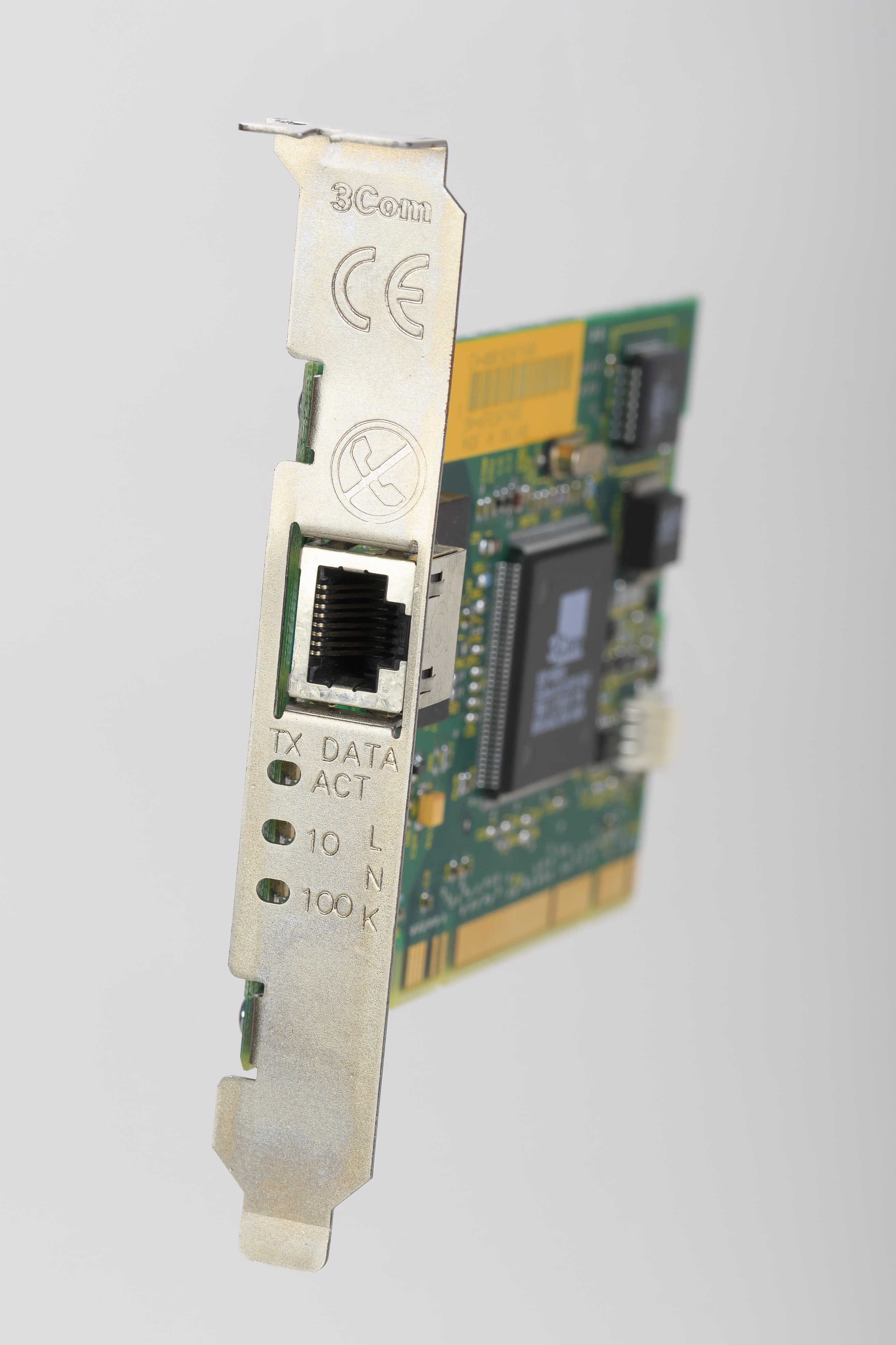 3Com Etherlink 10/100 PCI network interface card. Limited depth of field to focus view on connector panel.